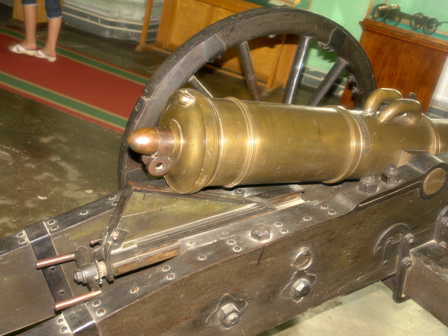 6-pounder (95 mm) field gun, model 1805 Bronze. 175 cm 369 kg. Cast in 1806 in St. Petersburg arsenal by Zhdanov. Range: 1670 m